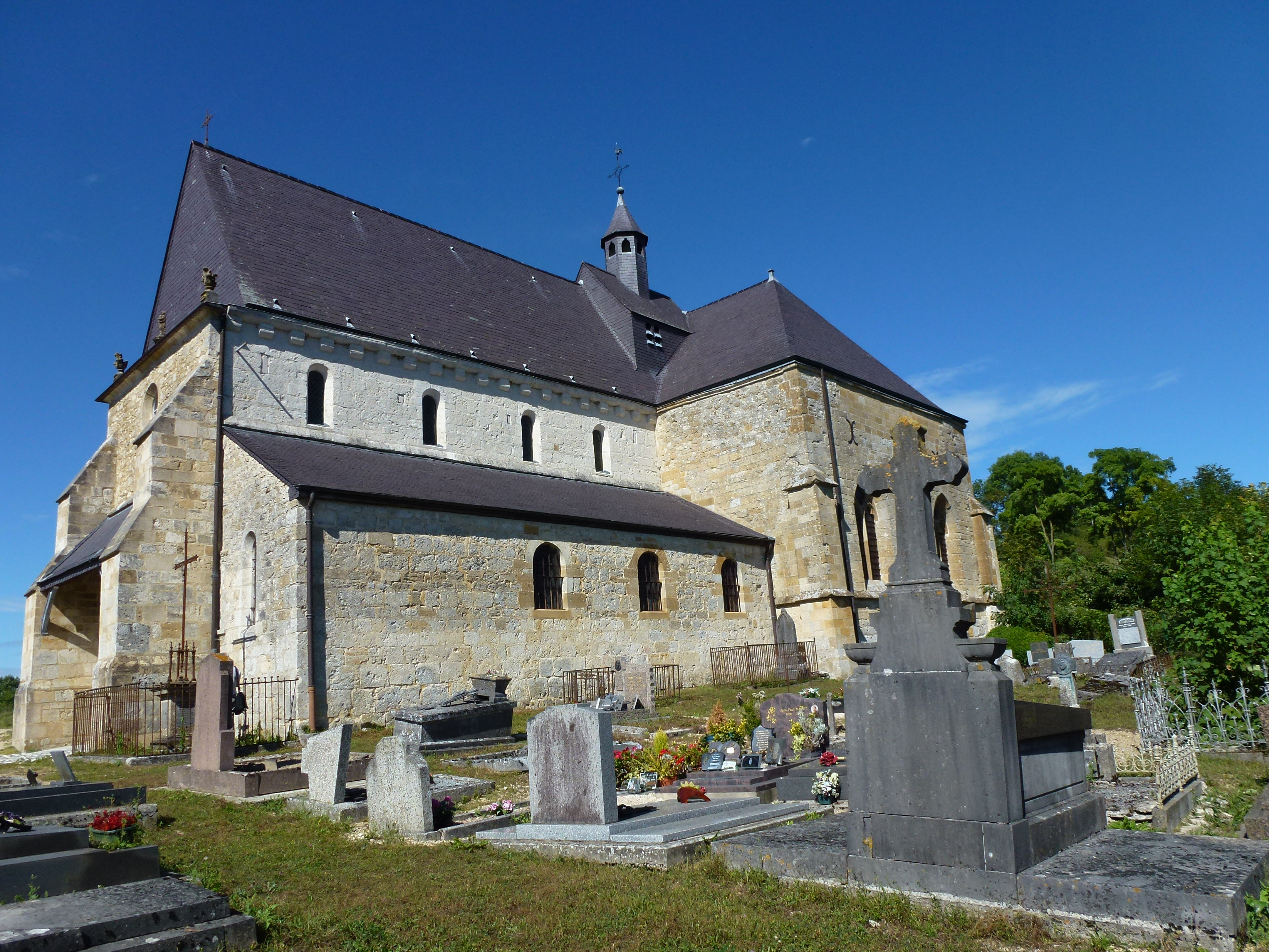 Saint-Loup-Terrier (Ardennes) Église Saint-Loup vu du sud